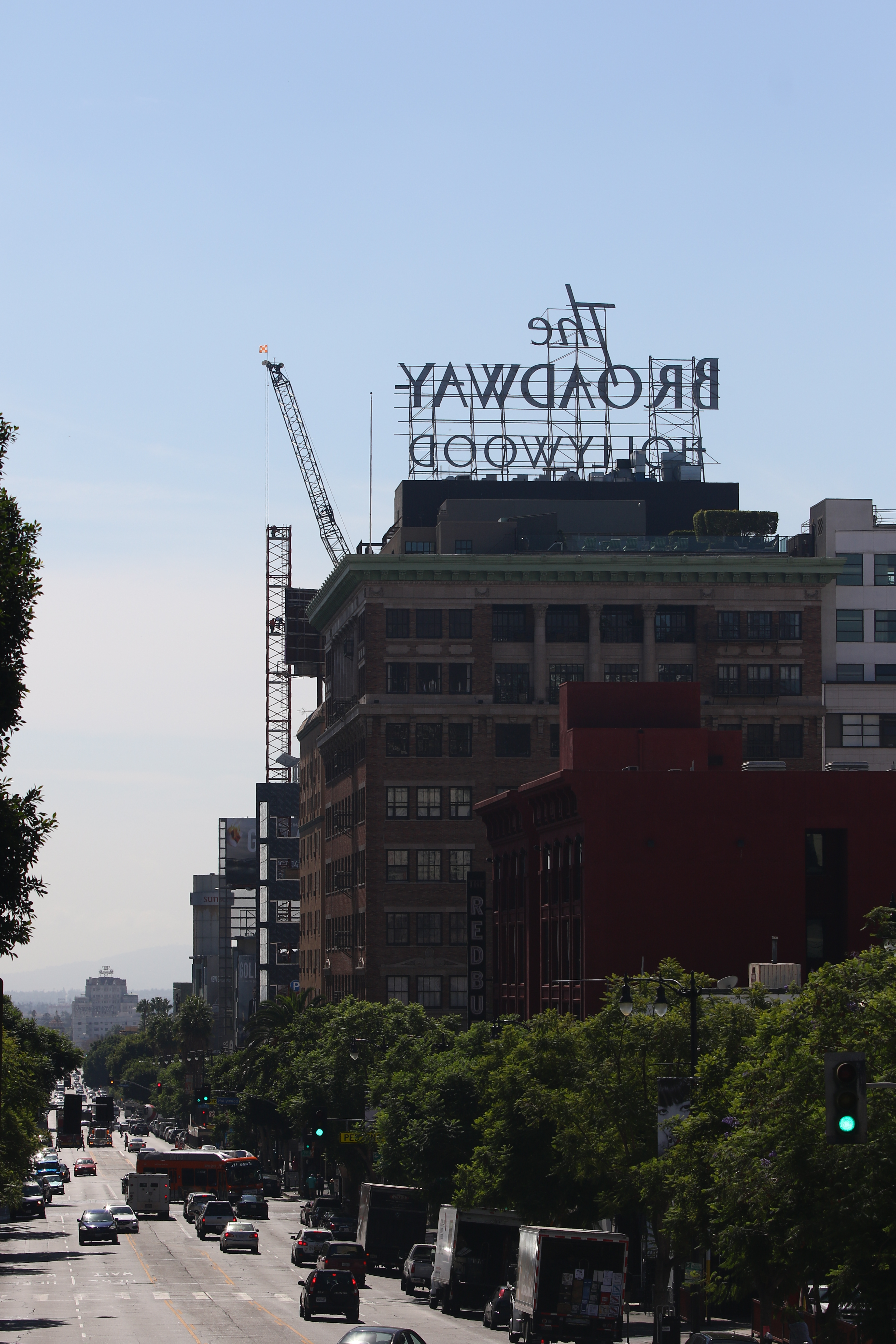 Broadway Hollywood Building from Vine Street